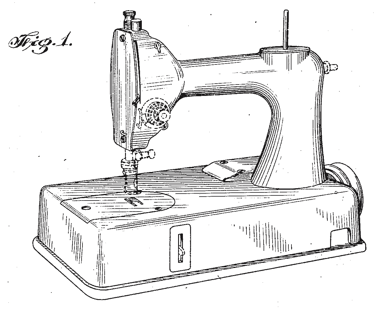 An illustration of the Standard Sewhandy, the first sewing machine designed to be portable, and the predecessor to the Singer 221.